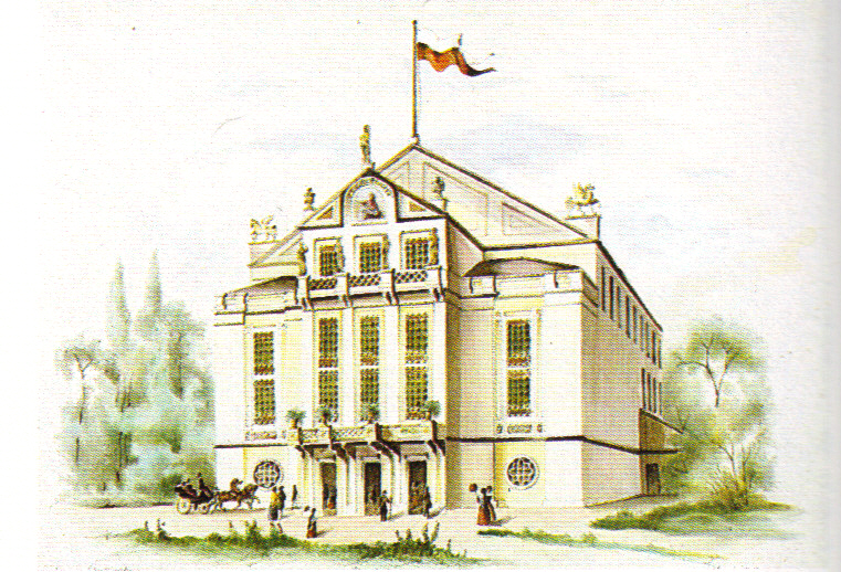 Vienna's Thalia Theatre - a wooden construction